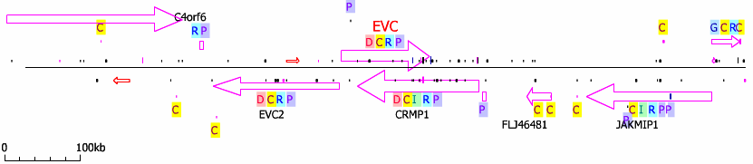 Diagram illustrating what is known about the gene and its neighbors on chromosome 4p16